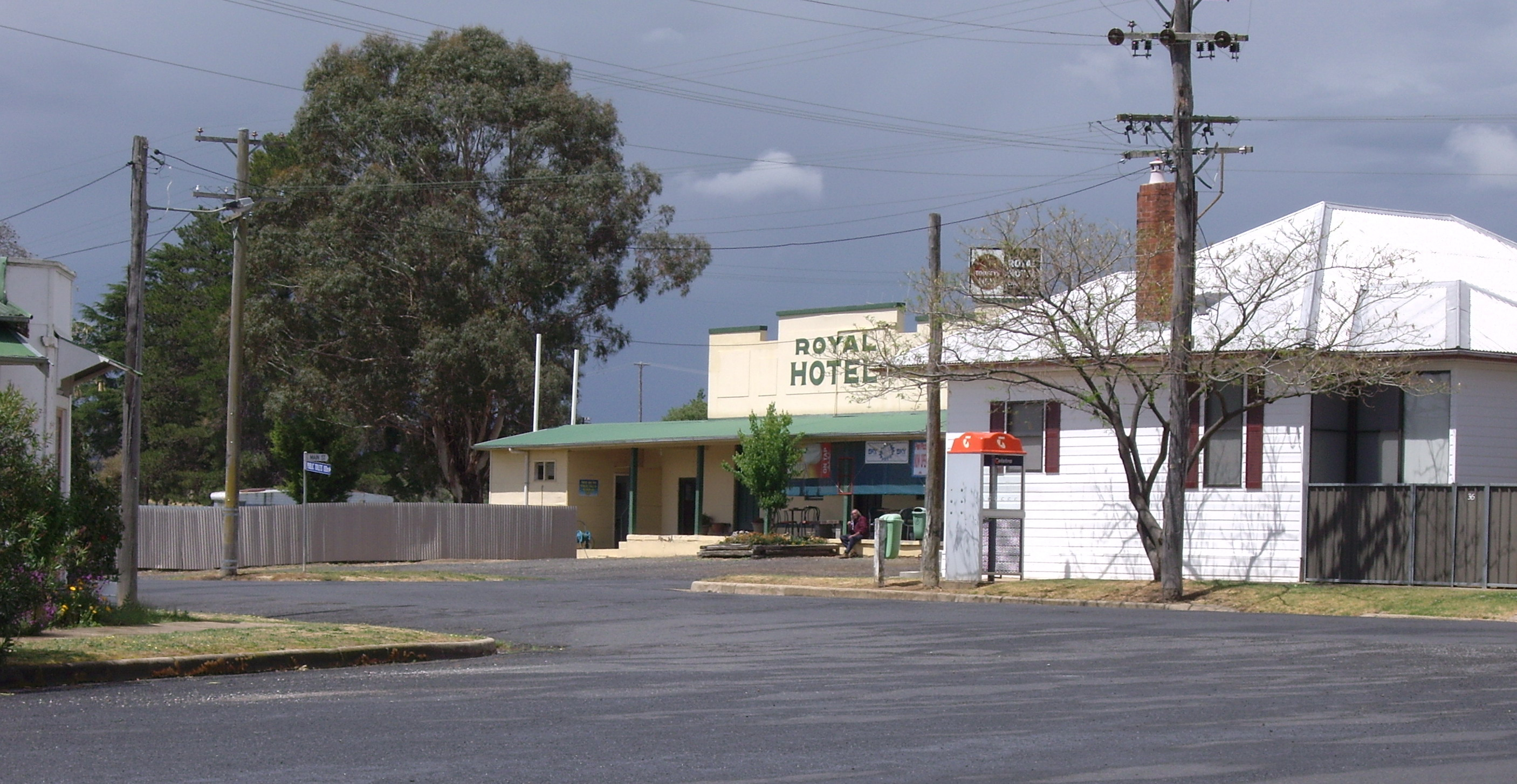 Lyndhurst streetscape including Royal Hotel